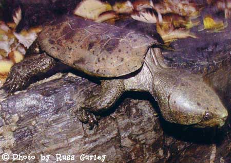 Platysternen megacephalum